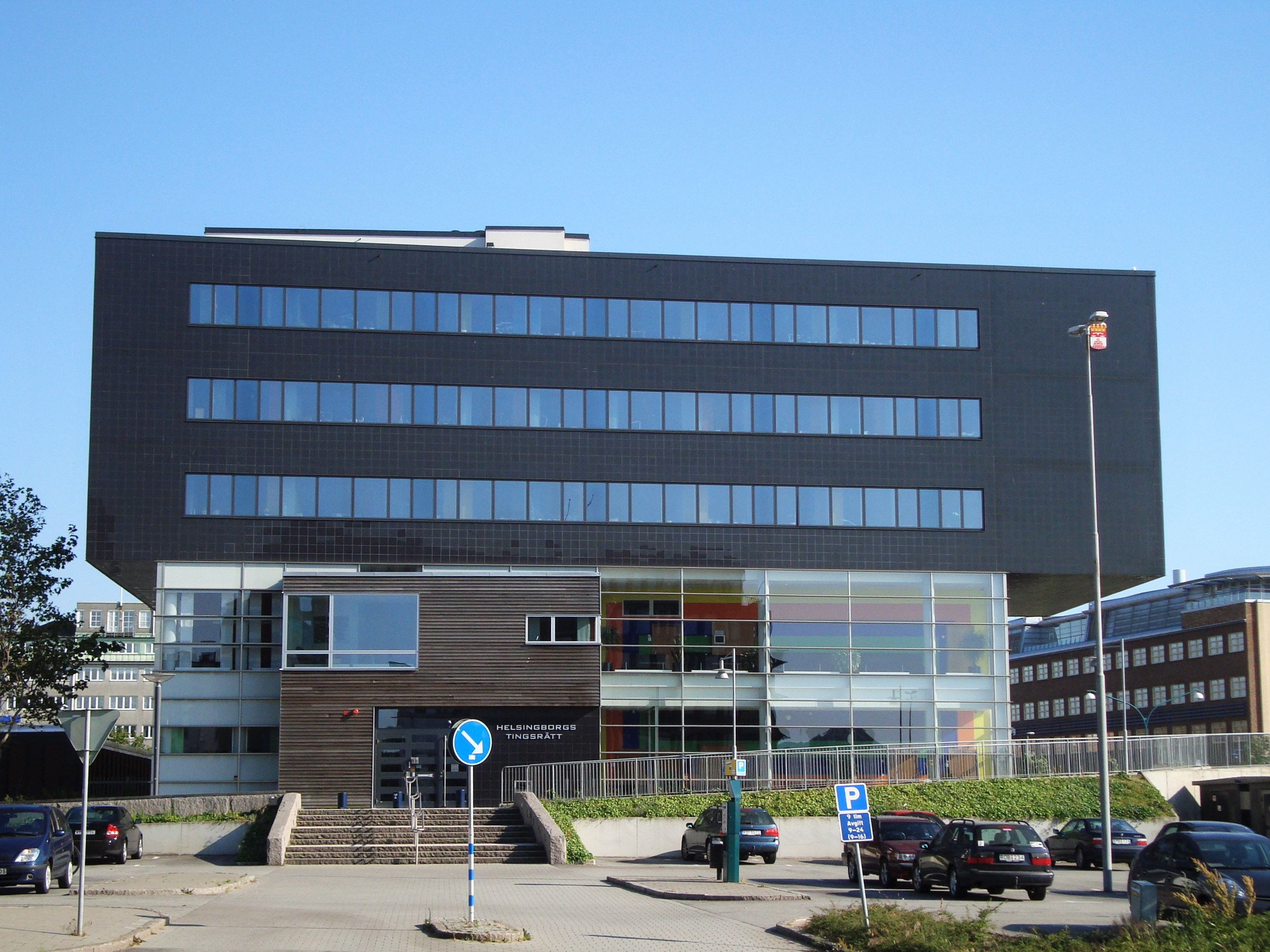 Helsingborg Court House.